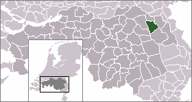 Location of Mill en Sint Hubert in the Netherlands.